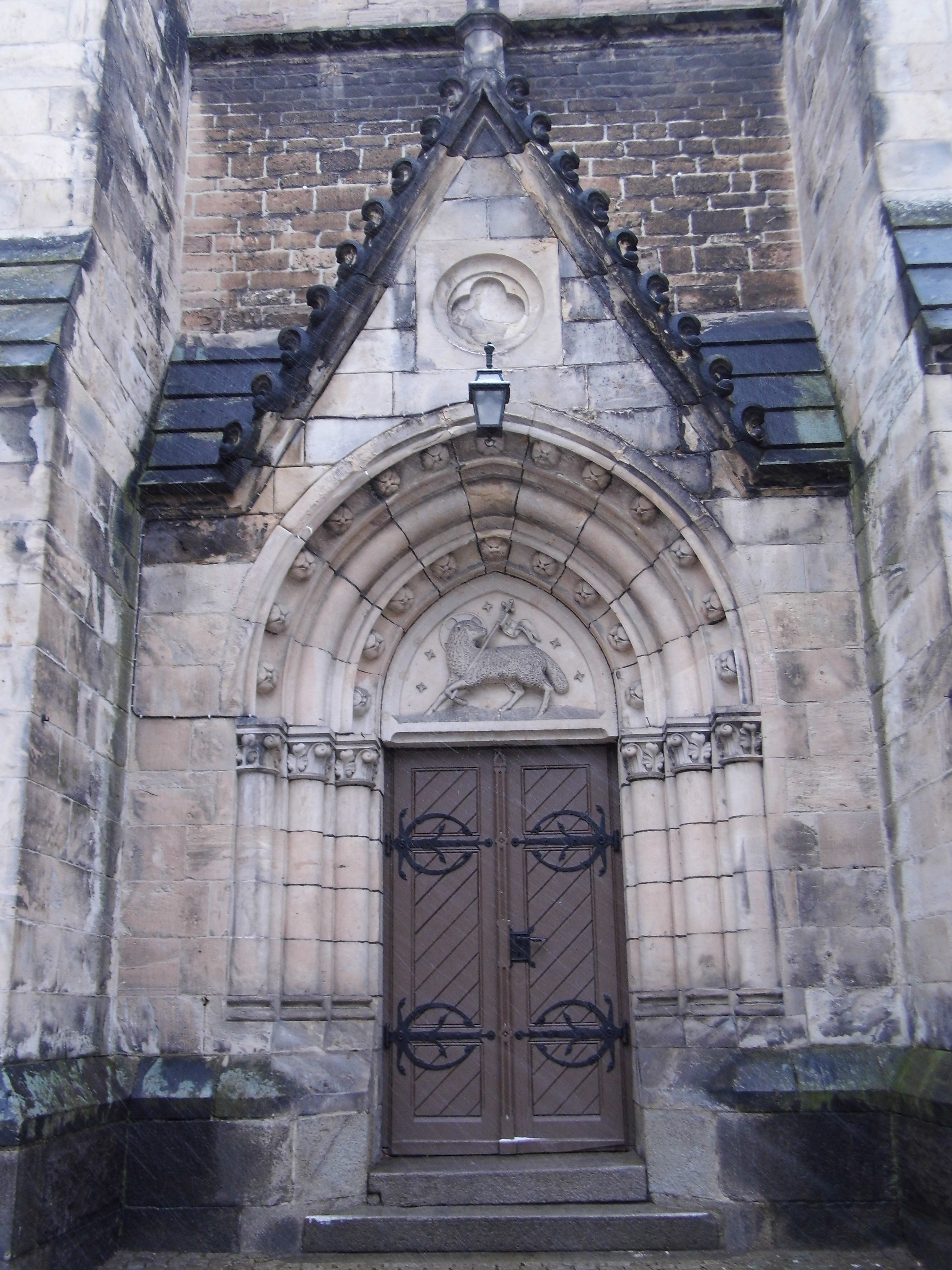 Das Westportal mir dem Lamm Gottes im Tympanon